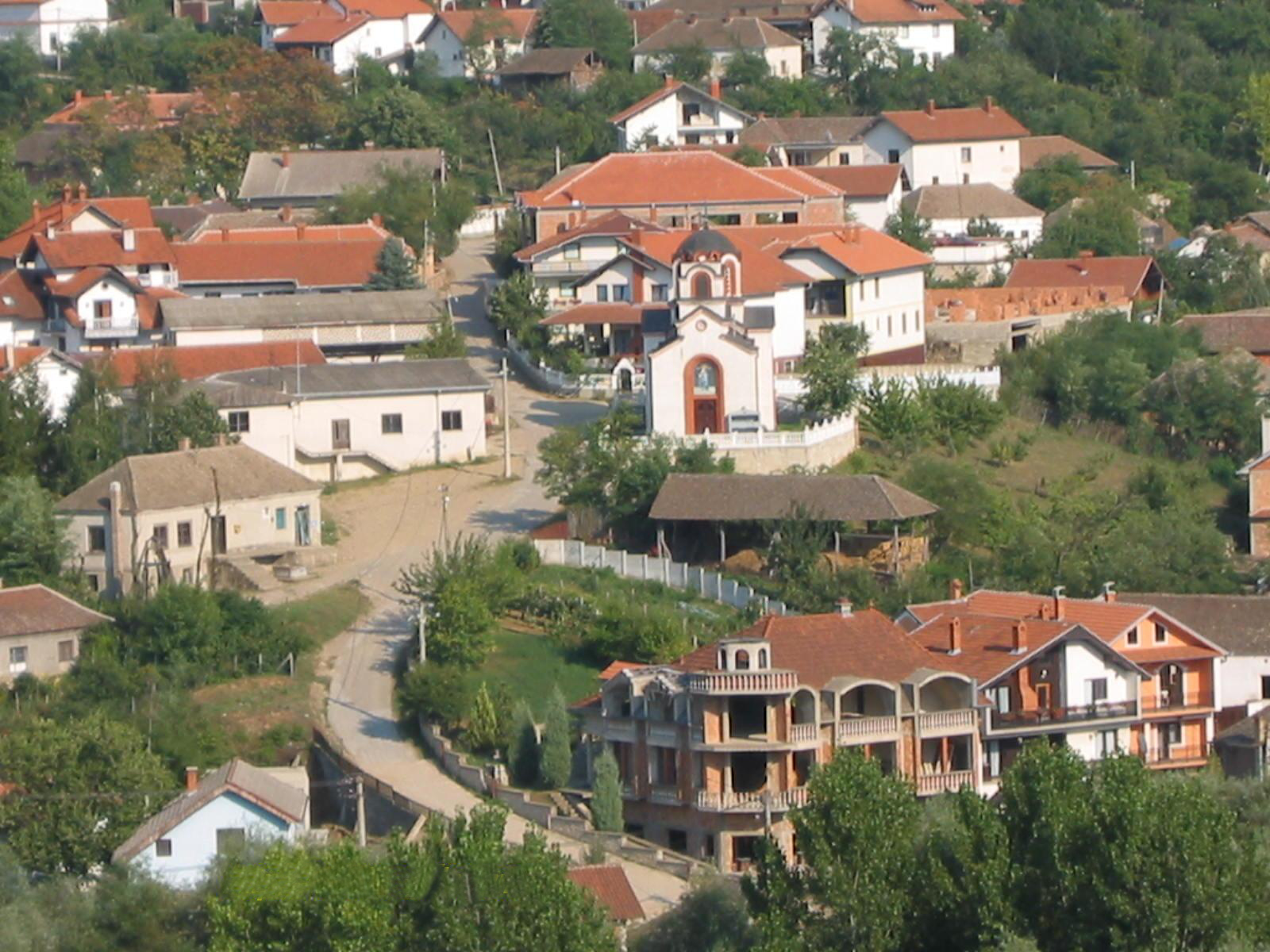 Village Doljasnica